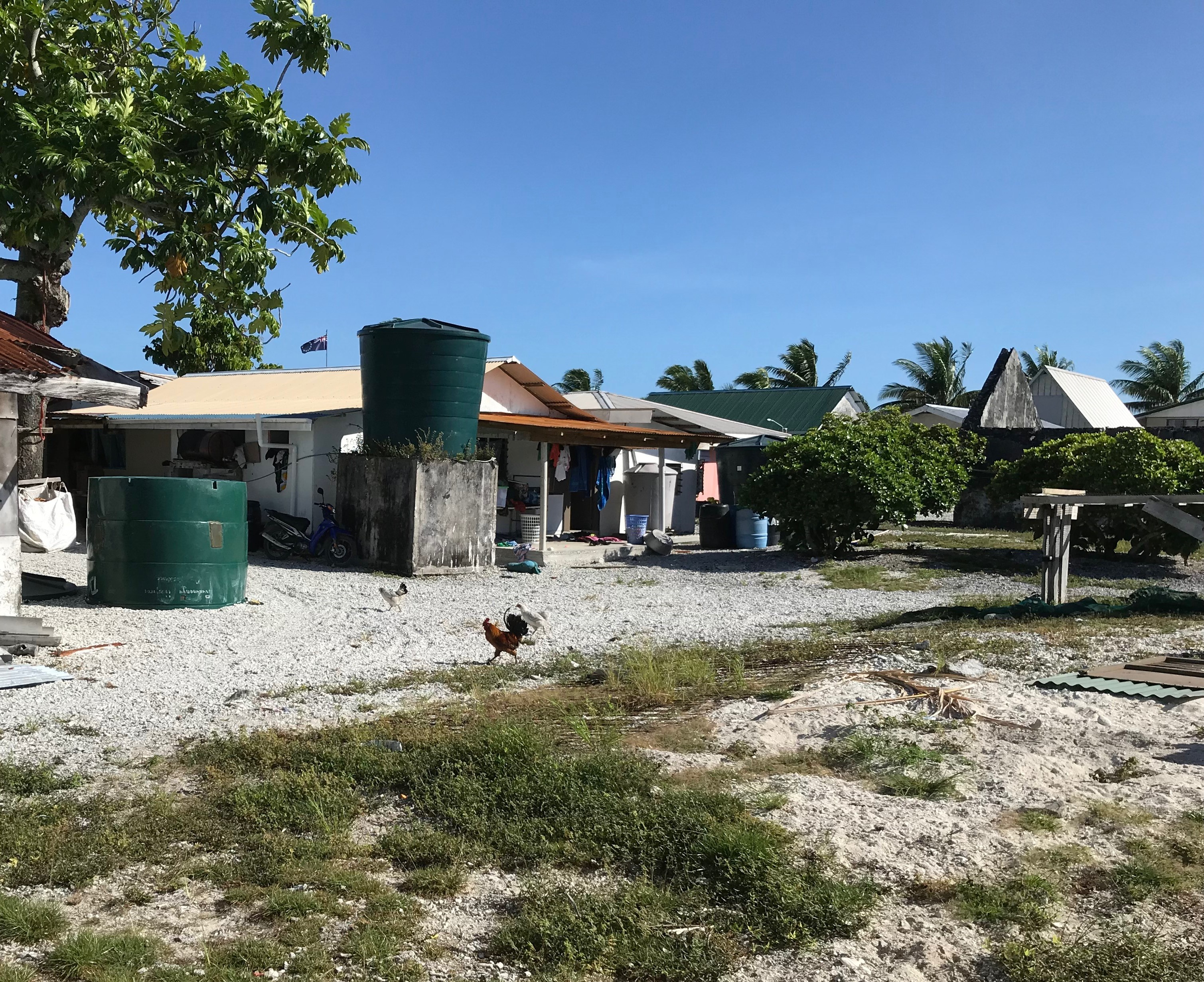 Roofing, gutters and water tanks have been provided to residents. This photo also shows the weed encroachment on the crushed coral paths.